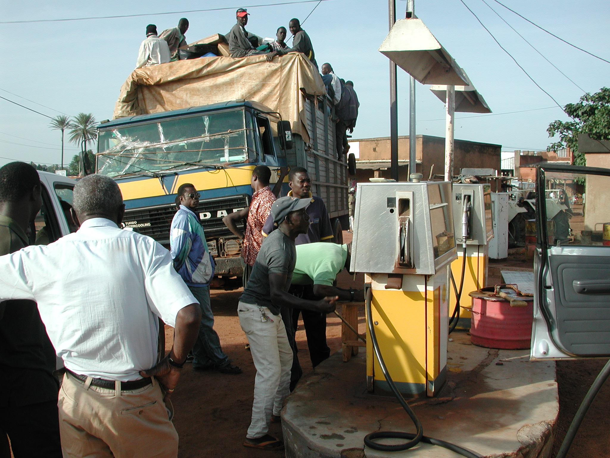 Hand-operated gas station in Leo, Burkina Faso.